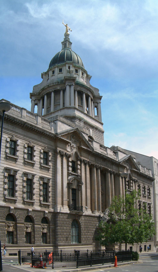 Old Bailey, London, from NW, photo by Nevilley 14/6/04